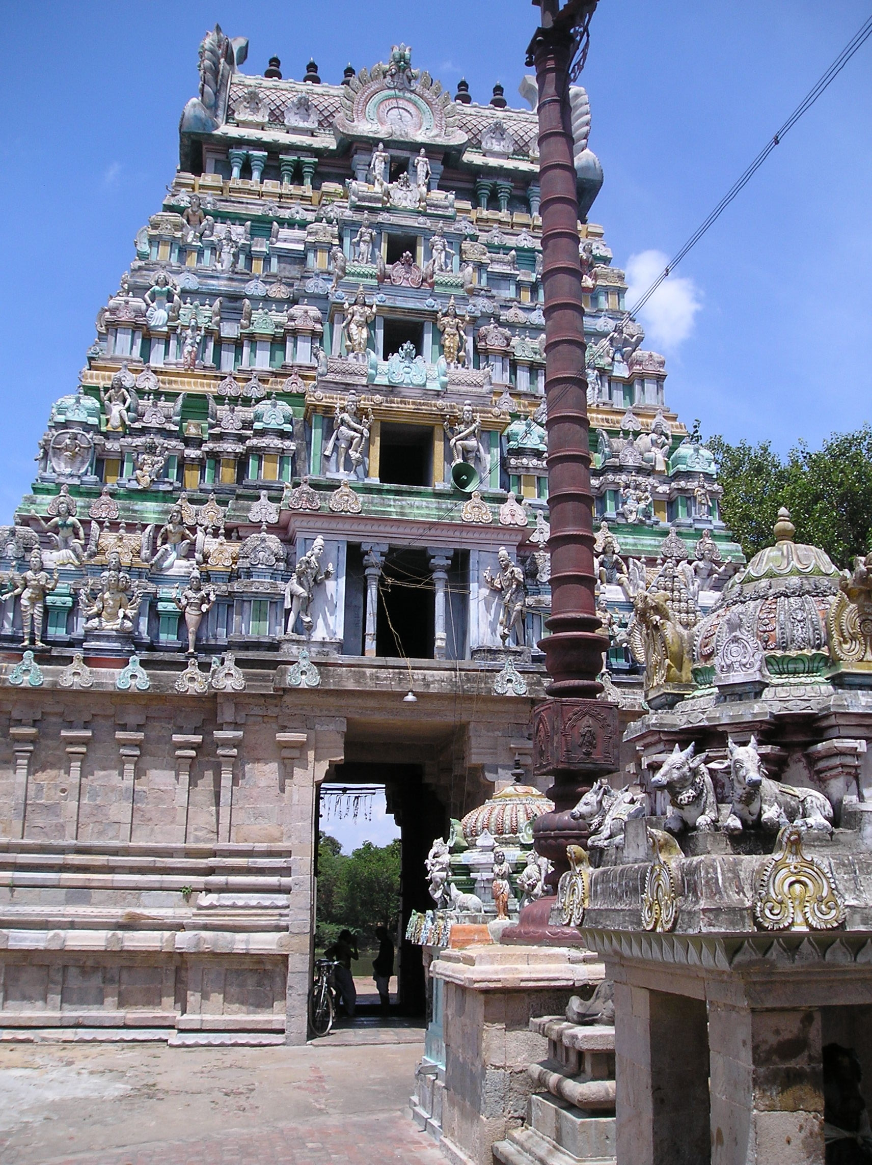 Pictures of Tirunallur